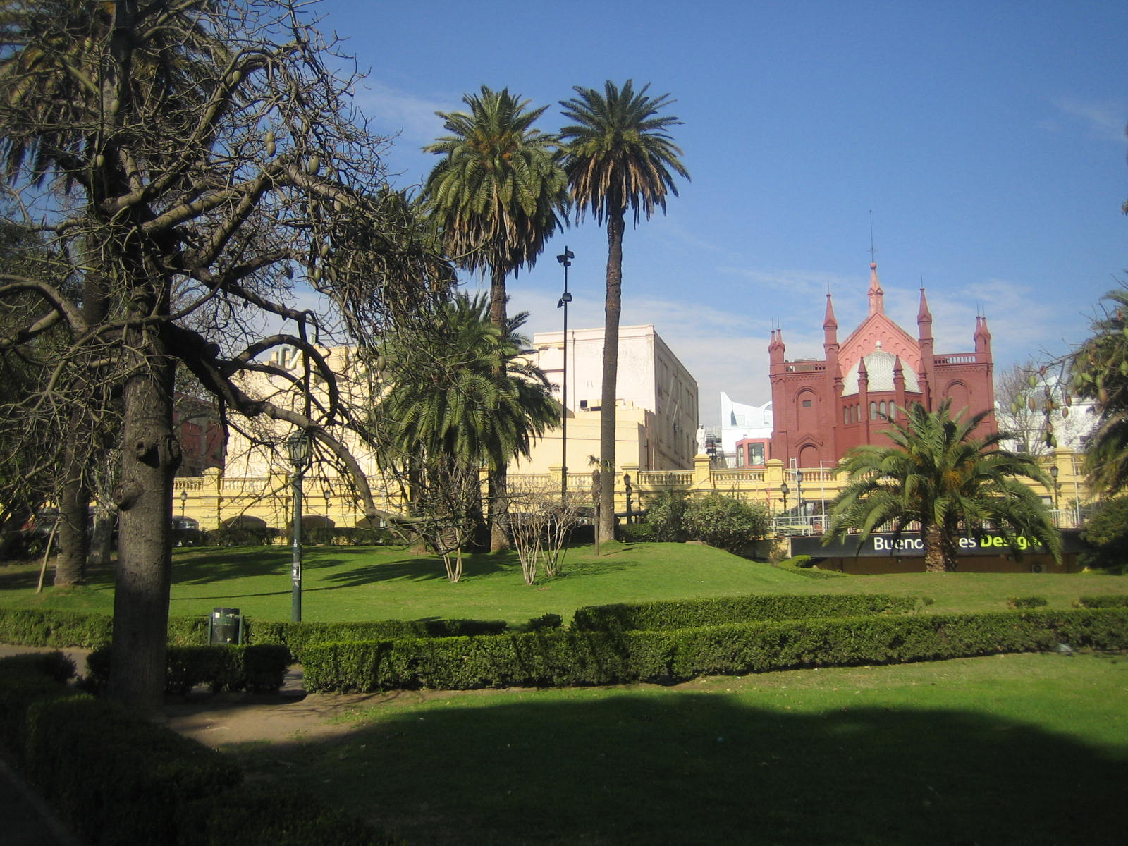 Plaza Intendente Alvear - Buenos Aires - Argentina